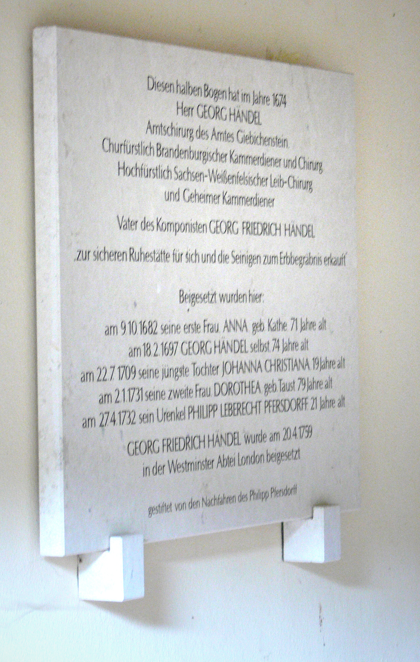 family grave "Georg Händel" (family of the composer G.F. Handel), Camposanto of Halle (Stadtgottesacker), Germany